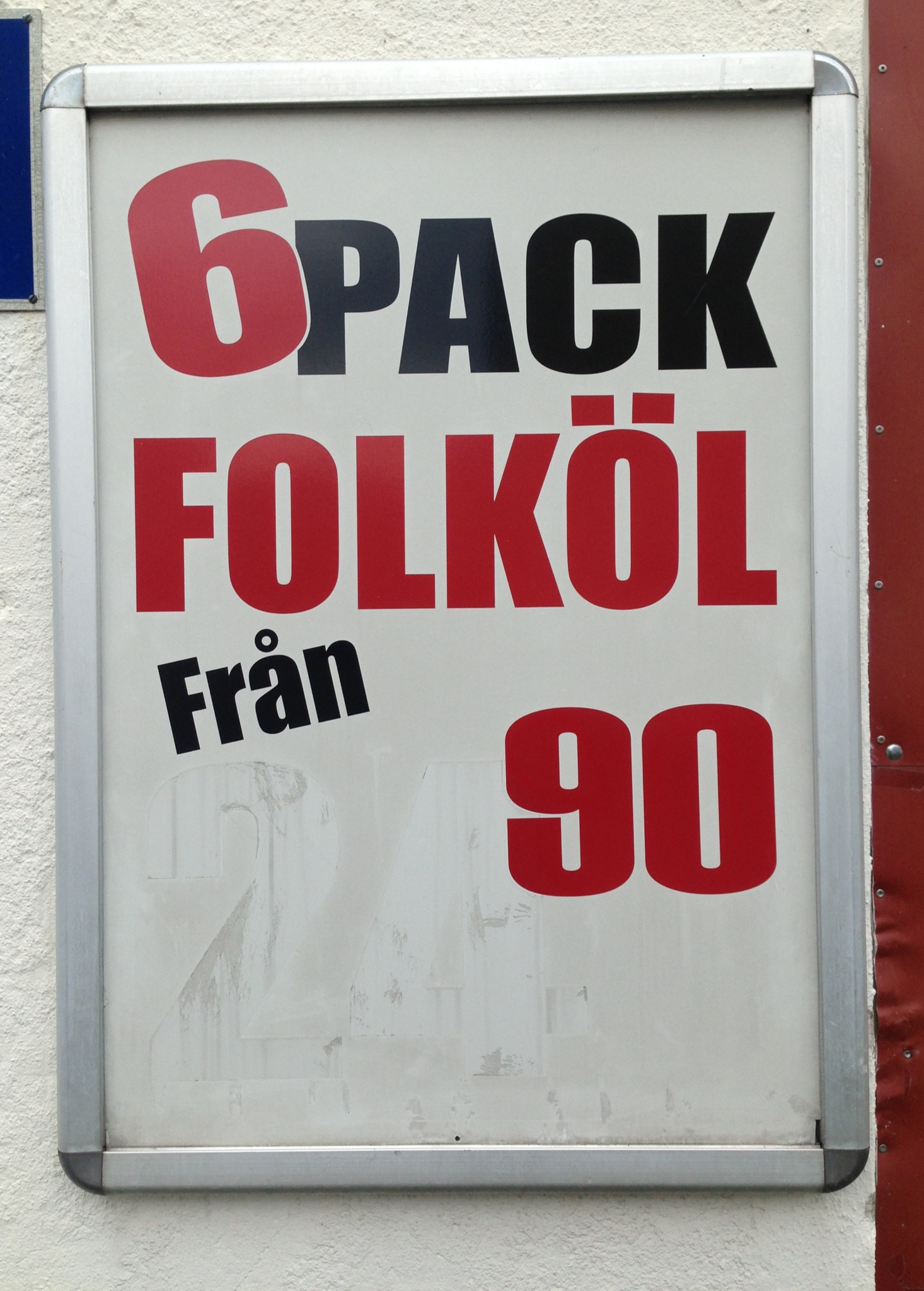 An ad selling a six-pack of folköl at Hisingen, Gothenburg, 2013